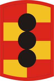 434th Field Artillery Brigade shoulder sleeve insignia